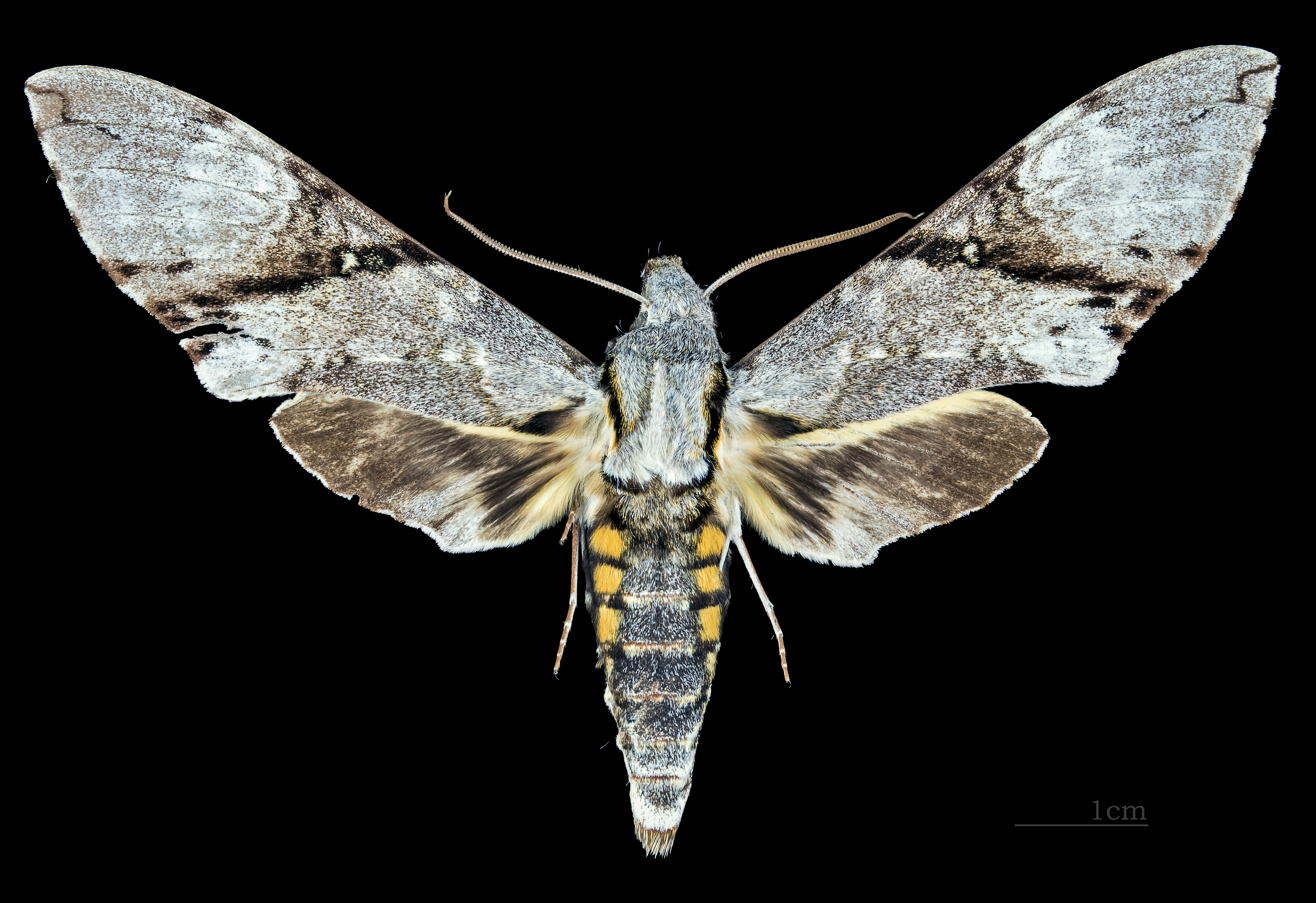 Manduca lefeburii - Dorsal side Collection of the Mathematician Laurent Schwartz